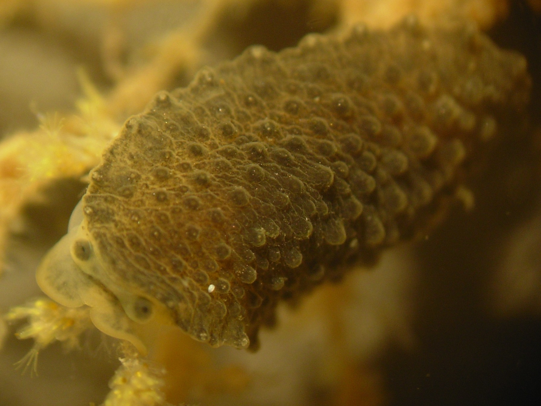 Onchidella celtica, view of the head and mantle.